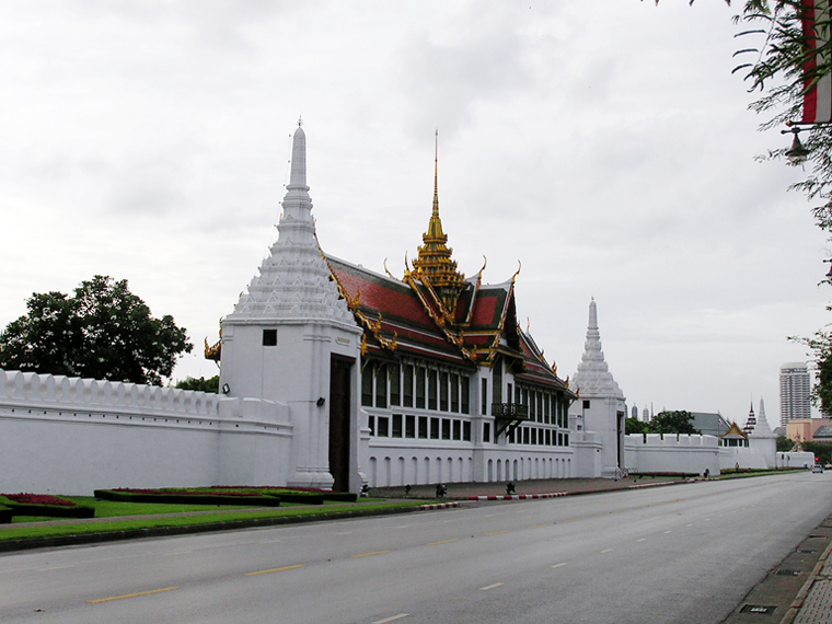 Sutthai Sawan Prasat Hall, Grand Palace, Bangkok, Thailand